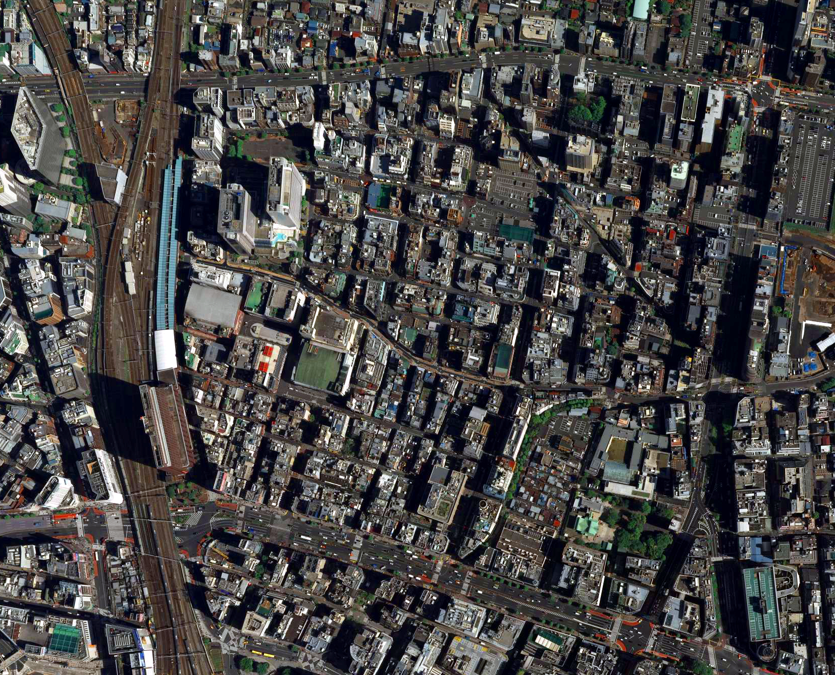 The Geographical Survey Institute took the aerial photograph in Shinjuku Ward, Tōkyō Metropolis on April 27, 2009.